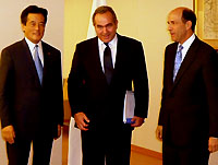 Kurt M. Campbell, Assistant Secretary of State for East Asian and Pacific Affairs, and John Roos, Ambassador to Japan, met Katsuya Okada, Minister for Foreign Affairs, in Tōkyō Metropolis on September 18, 2009.